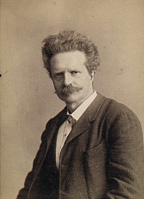 Walery Rzewuski (1837-1888), polish photographer.